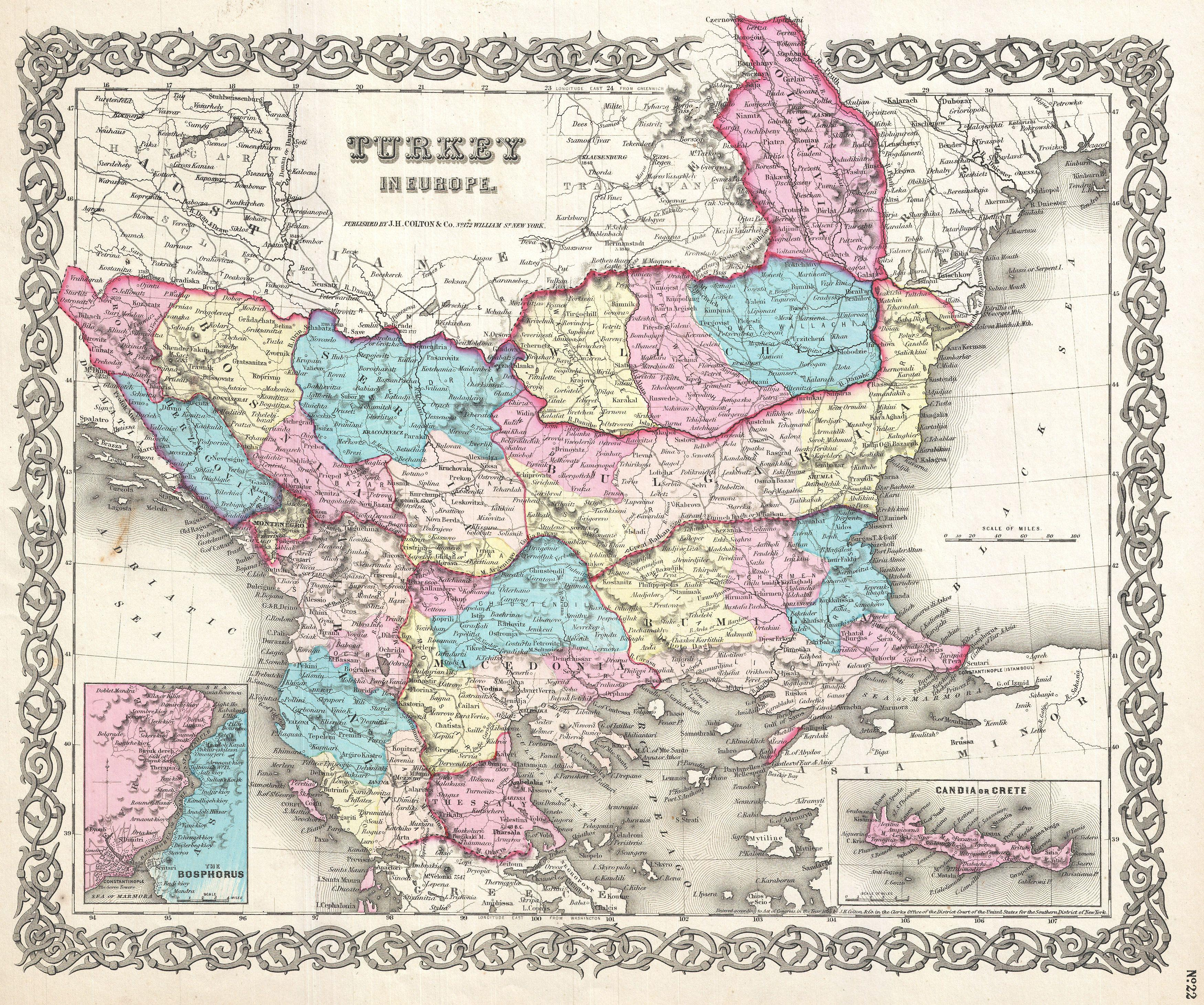 A beautiful 1855 first edition example of Colton's map of Turkey in Europe. Covers from Moldova to Greece and from the Adriatic to the Black Sea. Color coded according to regions, which include the modern day nations of Greece, Turkey, Macedonia, Albania, Bosnia, Serbia, Croatia, Bulgaria, Montenegro, and Moldova. An in set in the lower left quadrant details the Bosporus and Istanbul (Constantinople). Another inset, in the lower right, details the island of Candia or Crete. Throughout, Colton identifies various cities, towns, rivers and assortment of additional topographical details. Surrounded by Colton's typical spiral motif border. Dated and copyrighted to J. H. Colton, 1855. Published from Colton's 172 William Street Office in New York City. Issued as page no. 22 in volume 2 of the first edition of George Washington Colton's 1855 Atlas of the World .